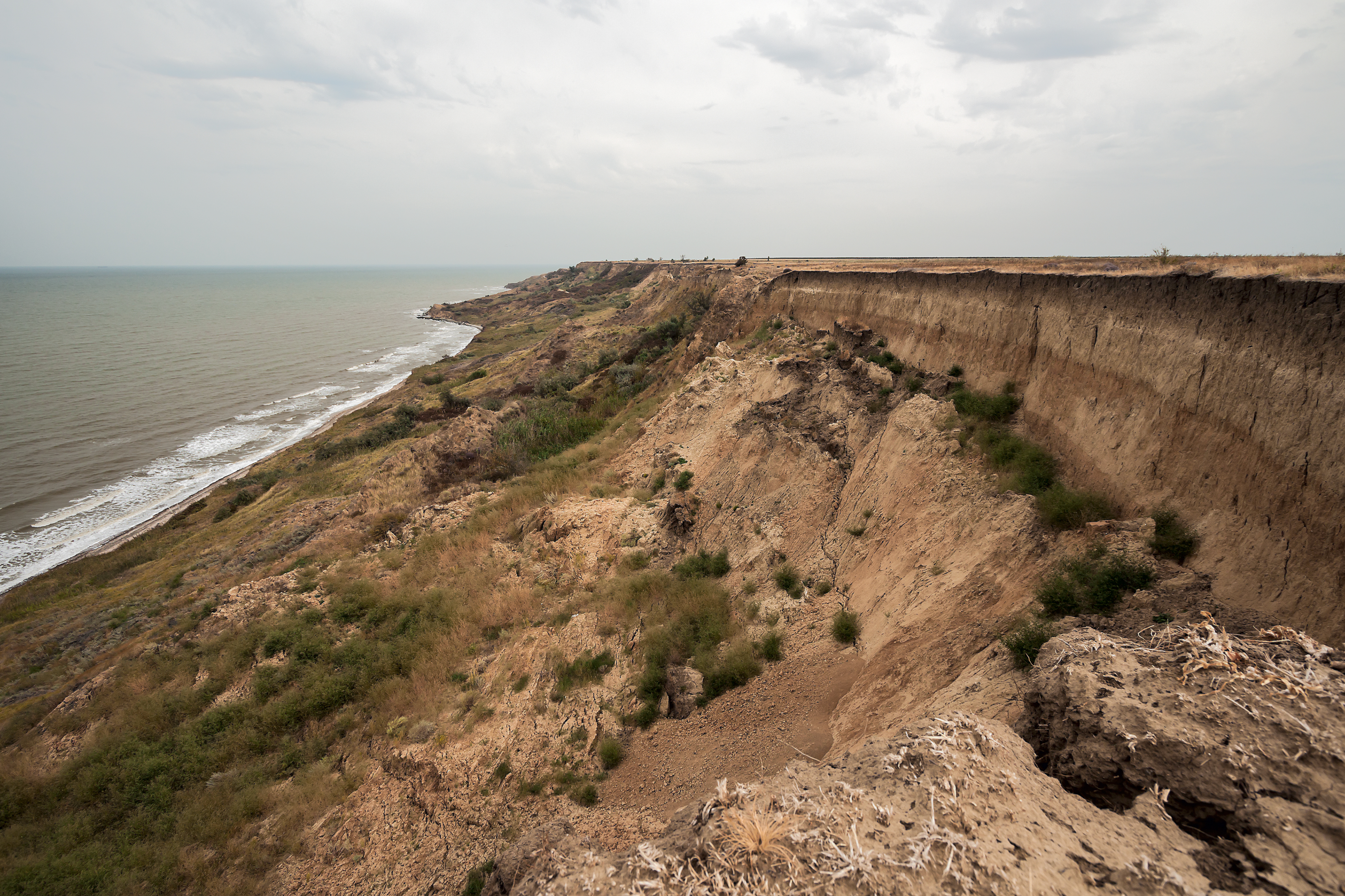 Tamansky Switzerland: The Azov coast from m Akhilleon to Pekla m, Temryuksky district, Krasnodar Krai